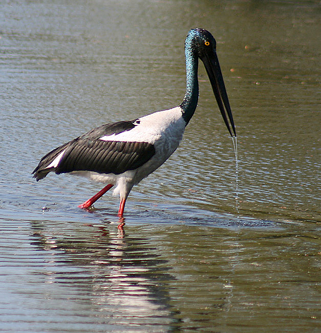 Black-necked Stork, (Ephippiorhynchus asiaticus) at Bharatpur, Rajasthan, India.